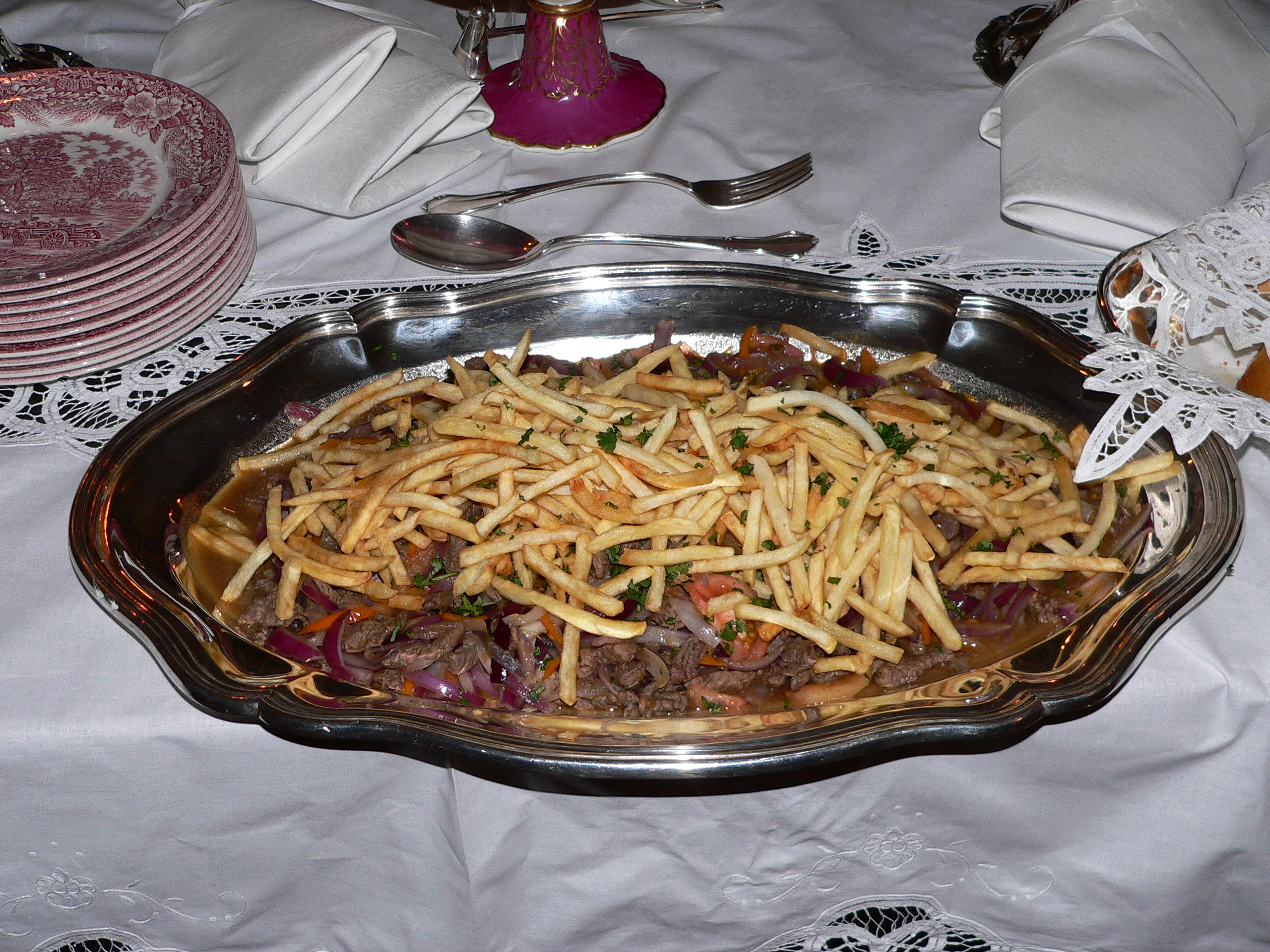 Description: Peruvian cuisine Name: Lomo saltado Country : Peru Photographer: © Manuel González Olaechea y Franco Shot date : January, 5th , 2007